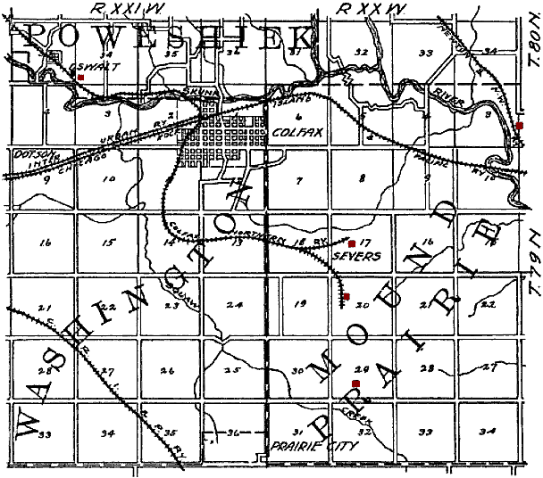 Original caption: "Figure 37a. Map showing the principal mines of Jasper County." The city is Colfax, Iowa. Mines have been tinted red by the uploader. The railroads shown on the map are: CRI&P Chicago Rock Island and Pacific Railroad, CB&Q Newton and Northwestern Railroad, CM&StP Colfax Northern Railway, and an unidentified Interurban.